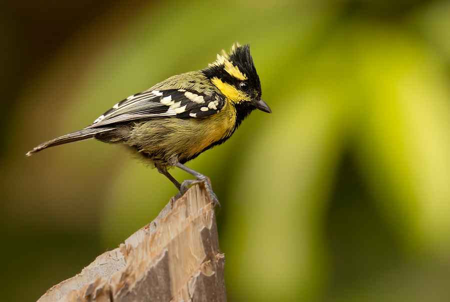 An Indian yellow tit (Parus aplonotus) in Dandeli, India